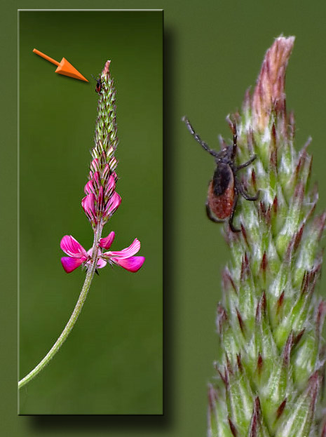 Onobrychis viciifolia (Sainfoin) and Ixodes scapularis (Deer Tick)